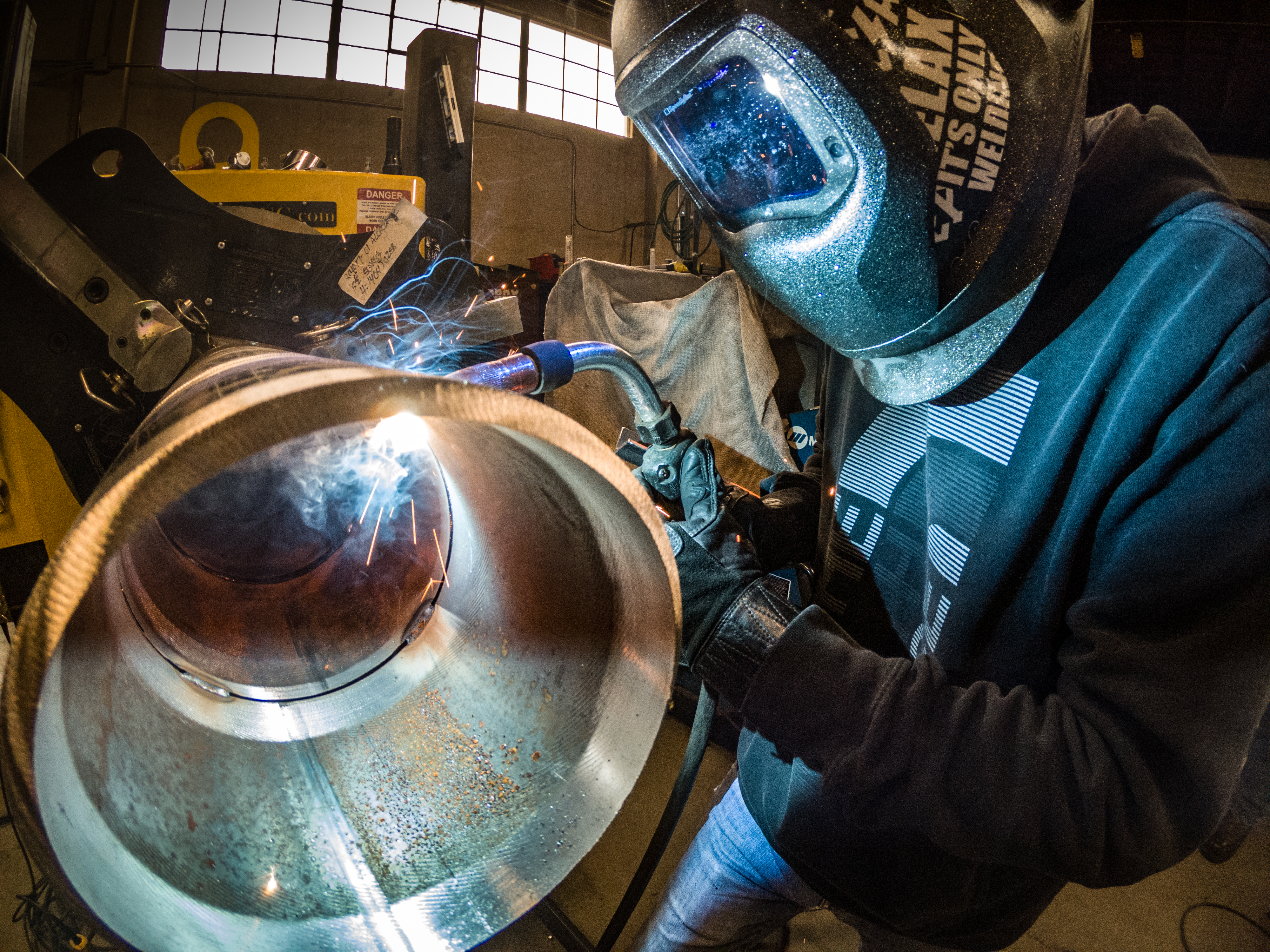 GMAW "Mig" Welding on pipe.